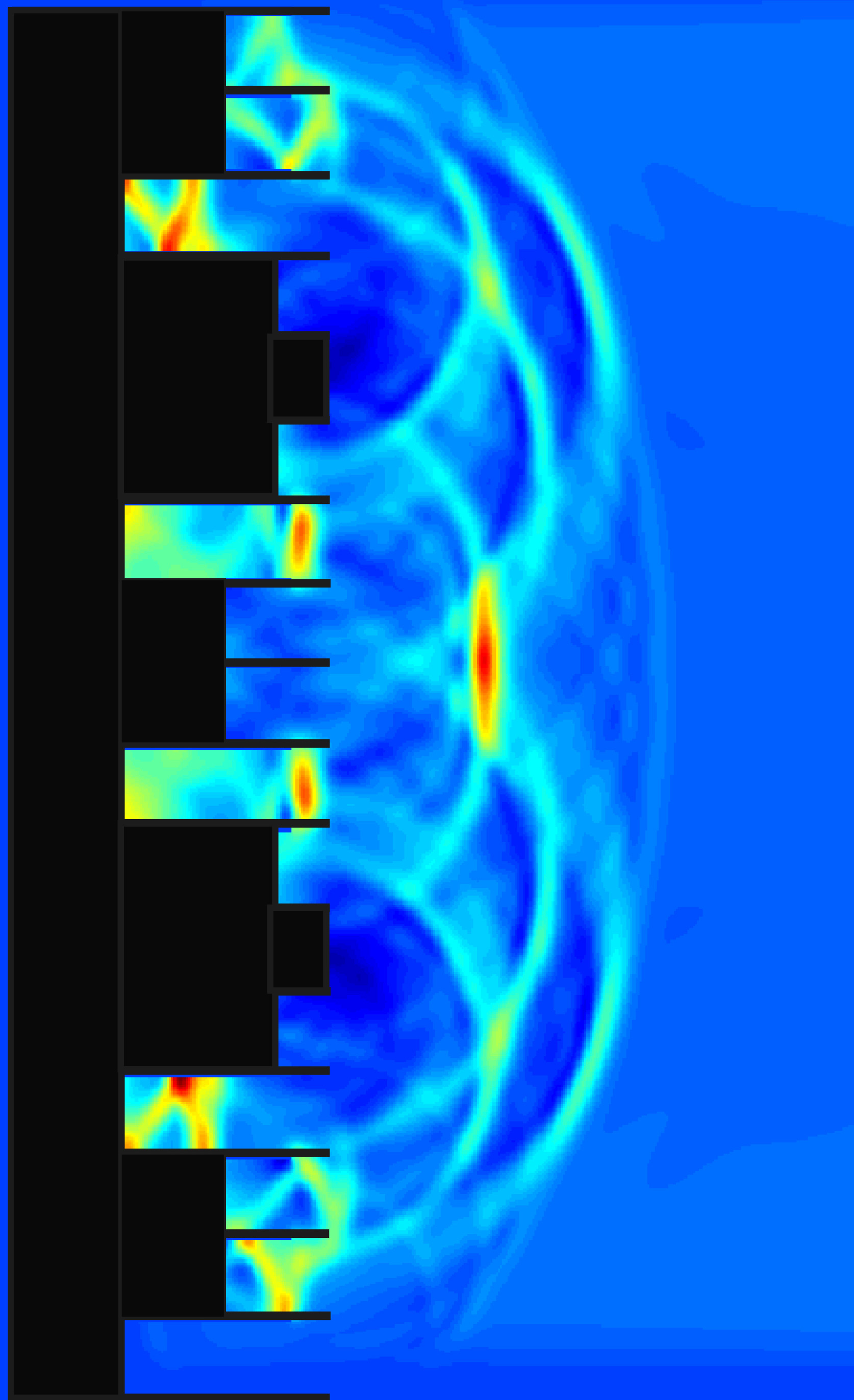 Prediction using FDTD